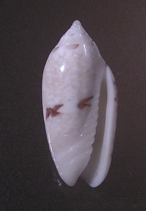 Oliva chrysoplecta Tursch & Greifeneder, 1989; an olive snail from the family Olividae; Philippines